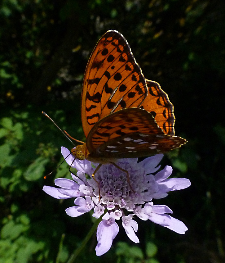 Male near Passanant, Catalonia.